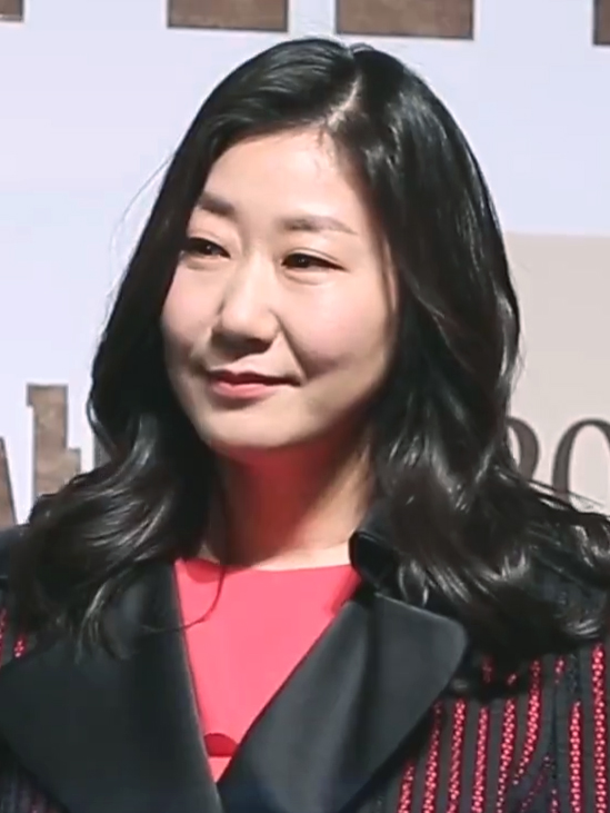 Ra Mi-ran in 2017